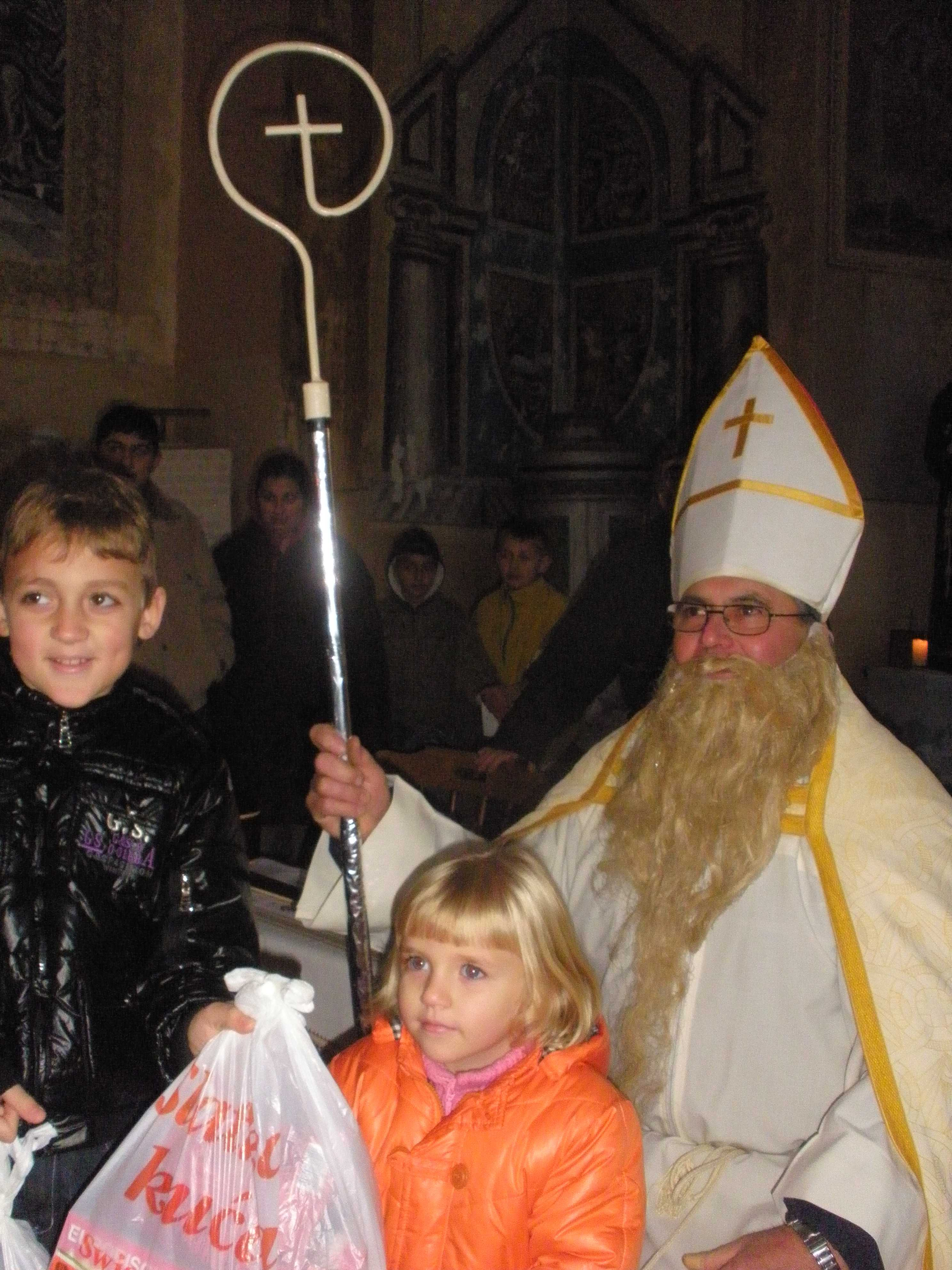 Saint Nikola with children in Ečka, Vojvodina, Serbia